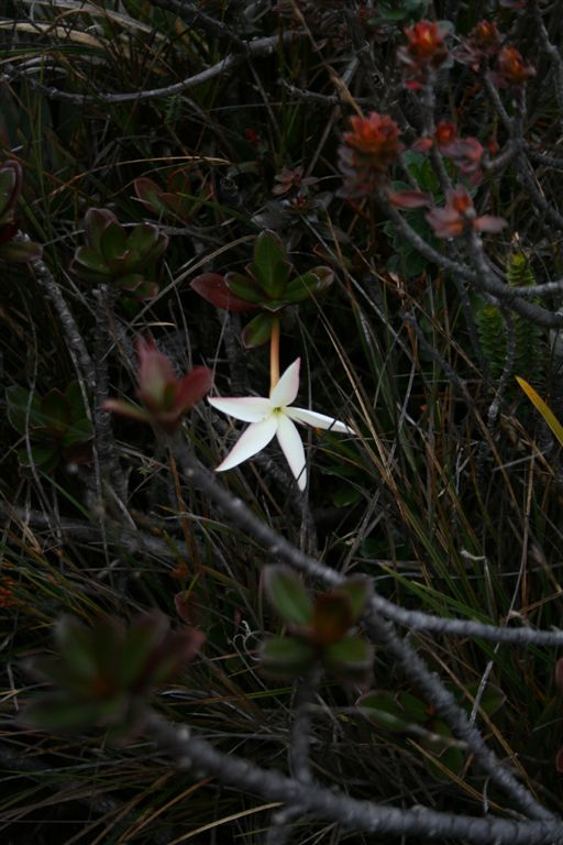 Maguireothamnus speciosus of mount Roraima, Venezuela